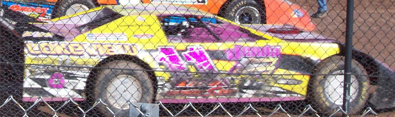 Fastrak Late Model #11 taken at the Fall Classic at Calumet County fairgrounds in Chilton, Wisconsin, USA